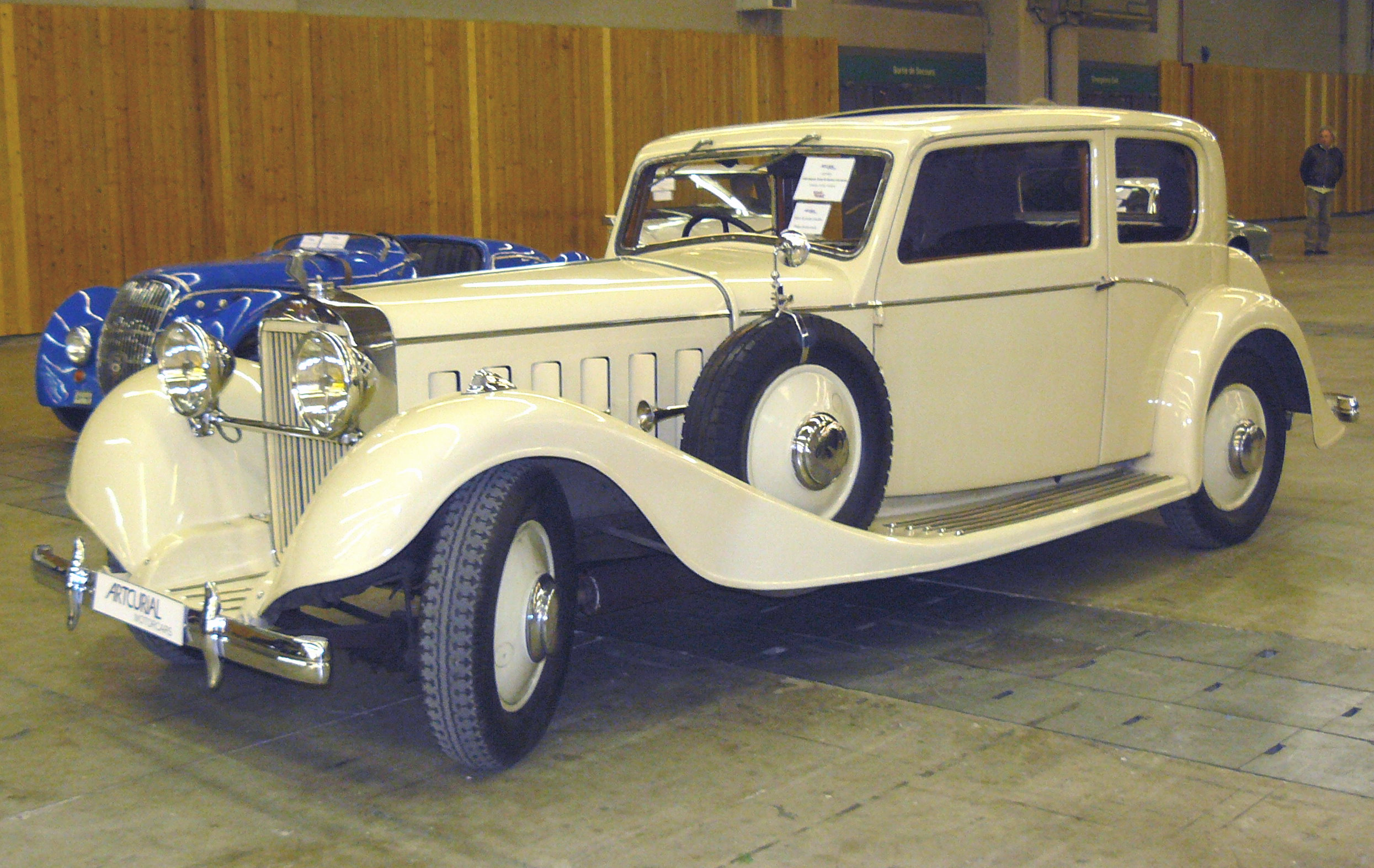 1934 Hispano Suiza K6 Coach Vanvooren, Retromobile, Paris, 2011